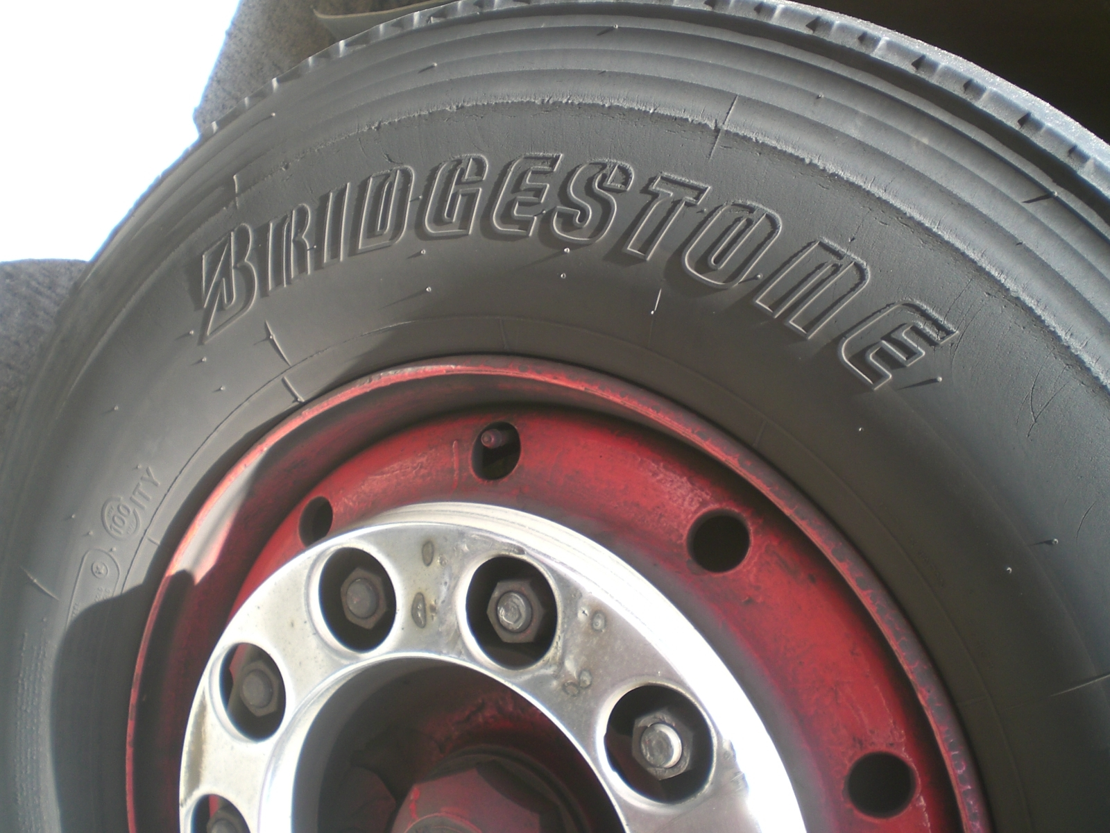 堅尼地城巴士總站 @ 堅尼地城西寧街, 近zh:域多利道